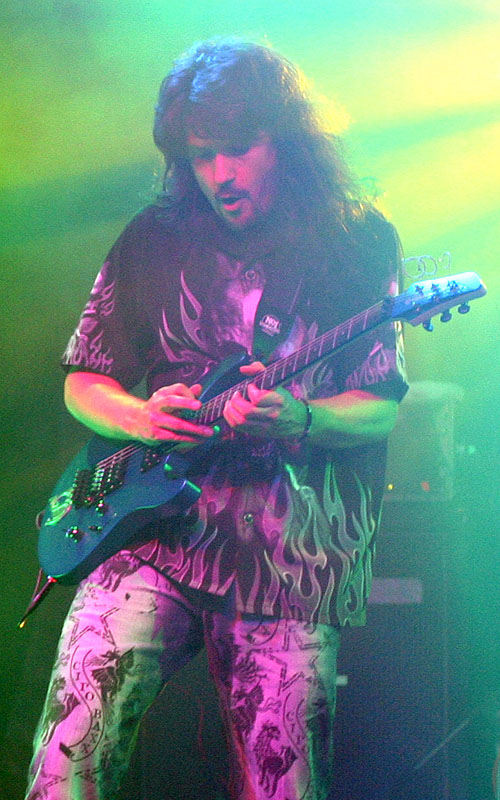 Victor Smolski with "Rage" during a Concert at "Zeche Bochum"